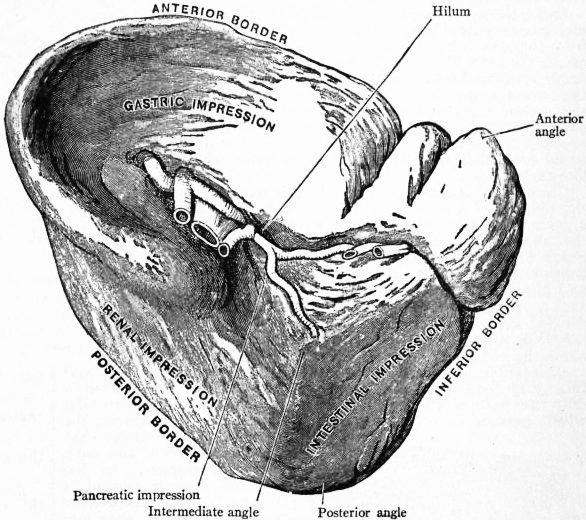 The Spleen—Visceral Aspect. From D. J. Cunningham, Cunningham’s Text-book of Anatomy.